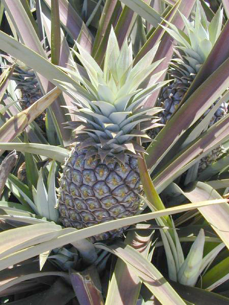 Ananas comosus - Pineapple, Leaves and fruit. Makawao, Maui.